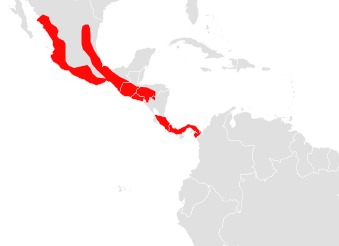 Distribution of Artibeus toltecus